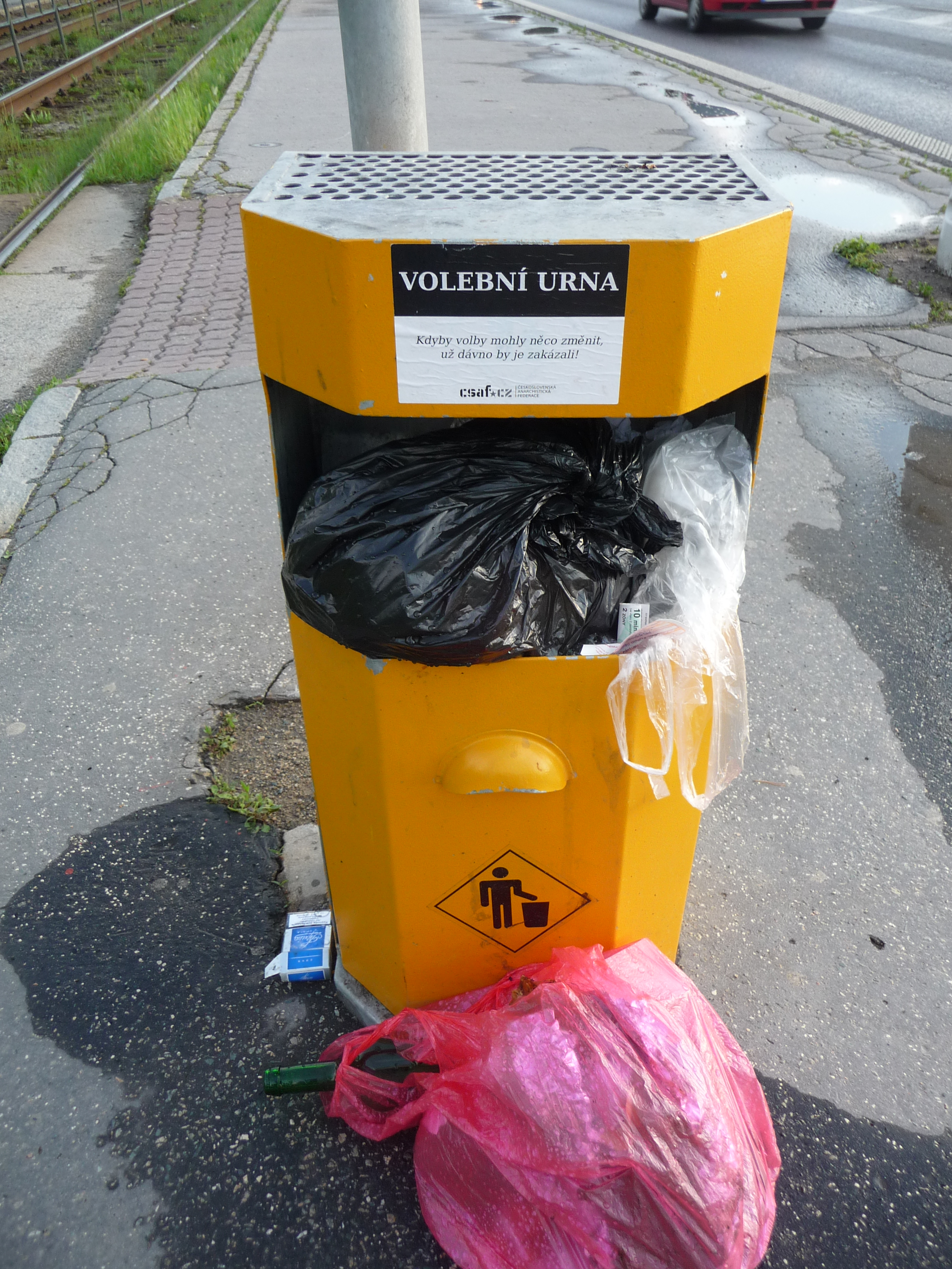 Sticker of Czechoslovakia anarchist federation before Czech legislative election 2010 on waste basket